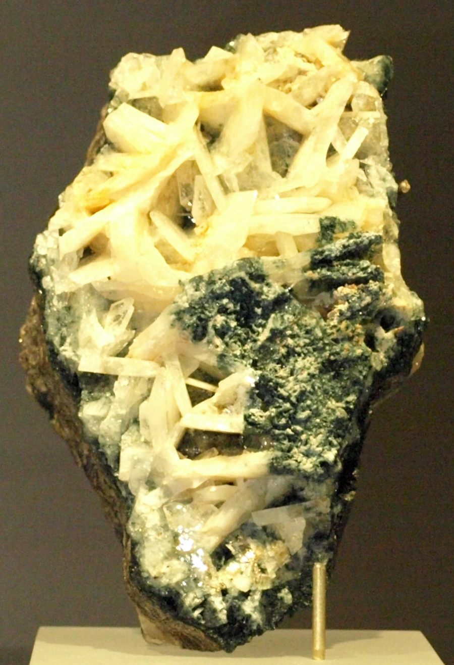 An example of the mineral Whitlockite on display in the Vale Inco Limited Gallery of Minerals at the Royal Ontario Museum.